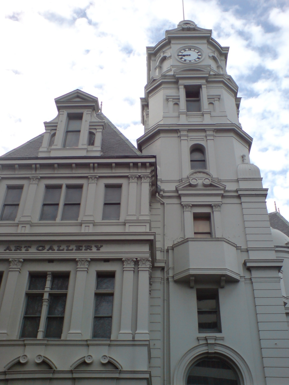 The Auckland Art Gallery in the Auckland CBD, Auckland City, New Zealand. New Zealand Historic Places Trust Register number: 92.